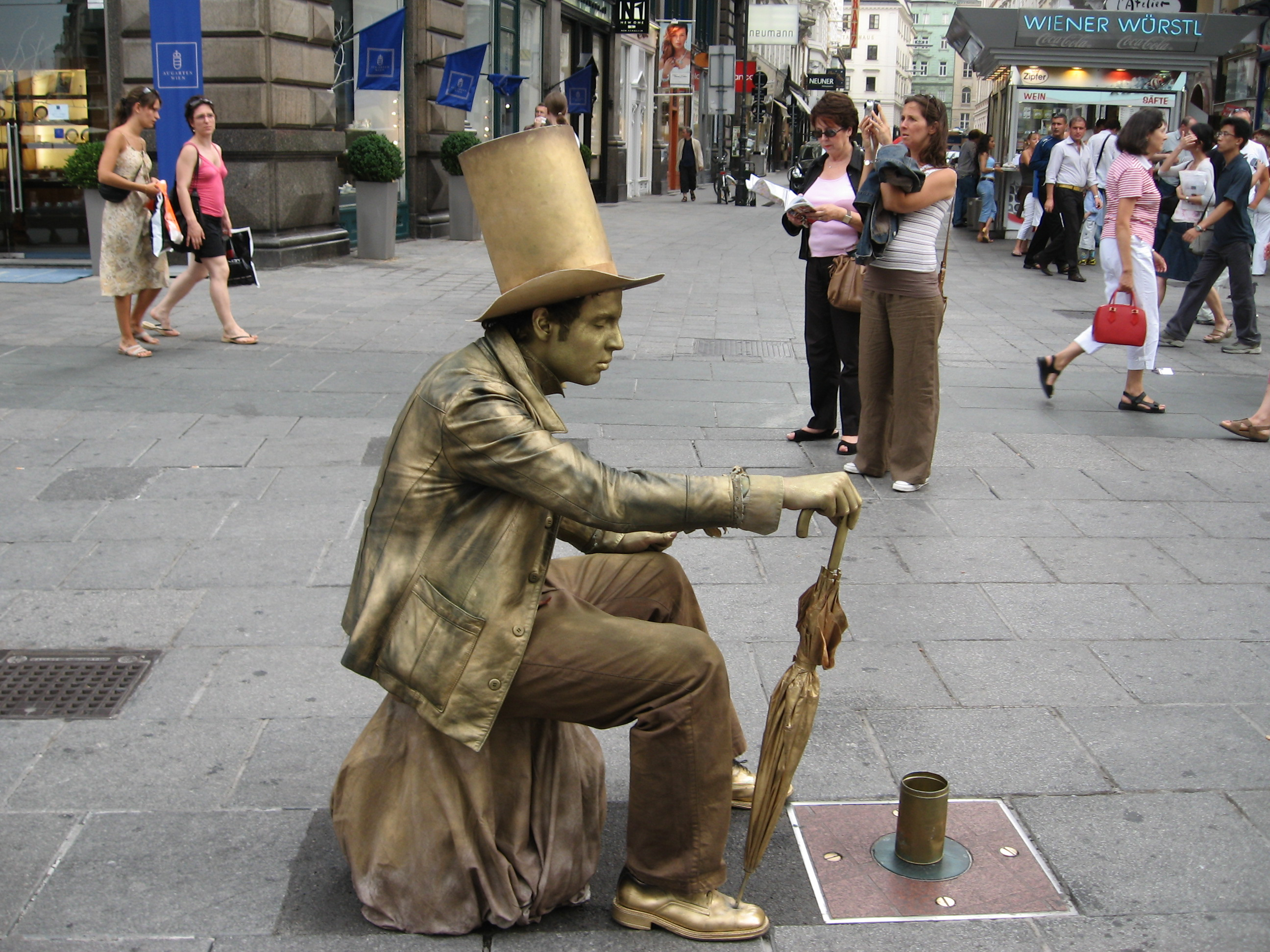 A Living statue. The picture was taken in Vienna, July 2006